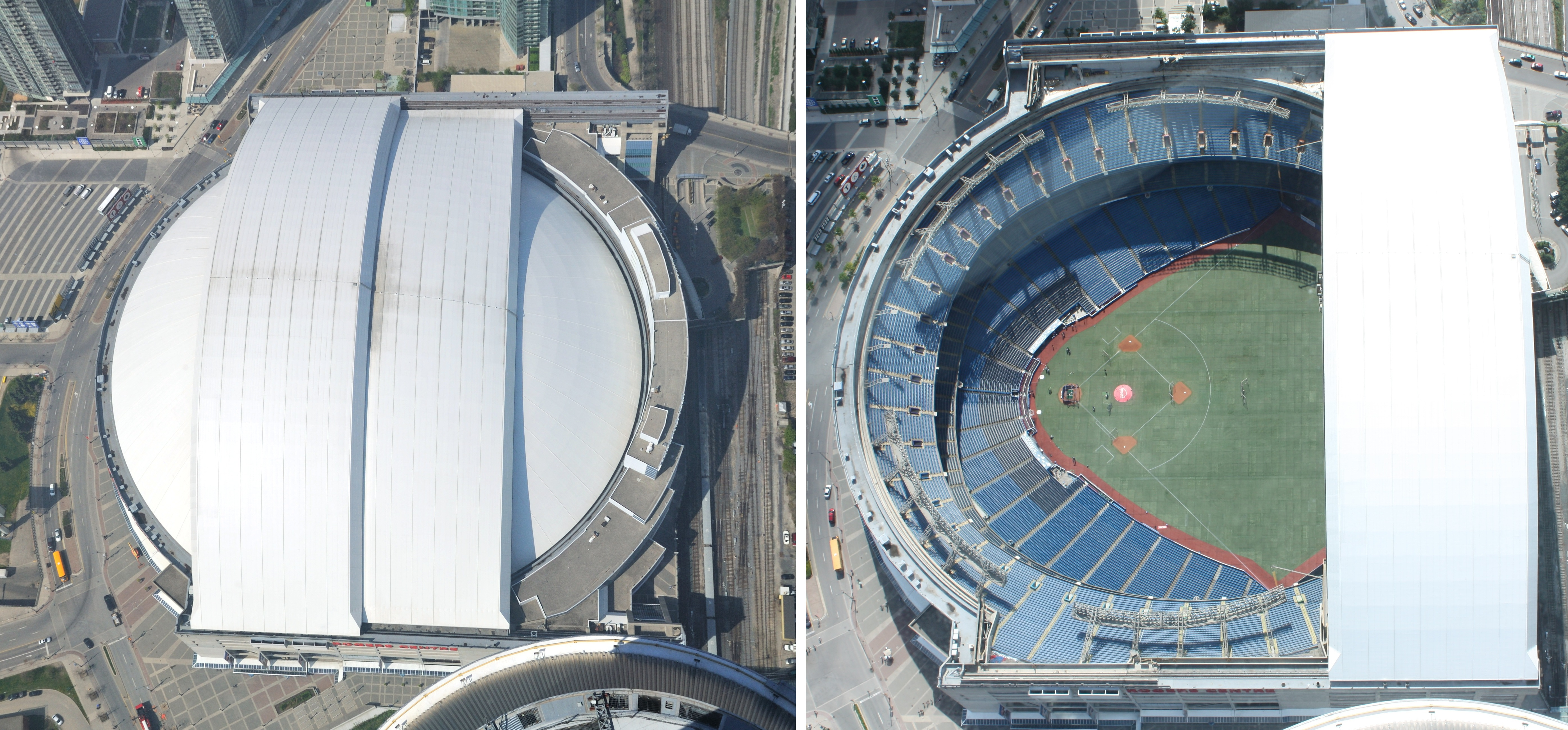 Rogers Centre with closed and opend roof, view from CN Tower